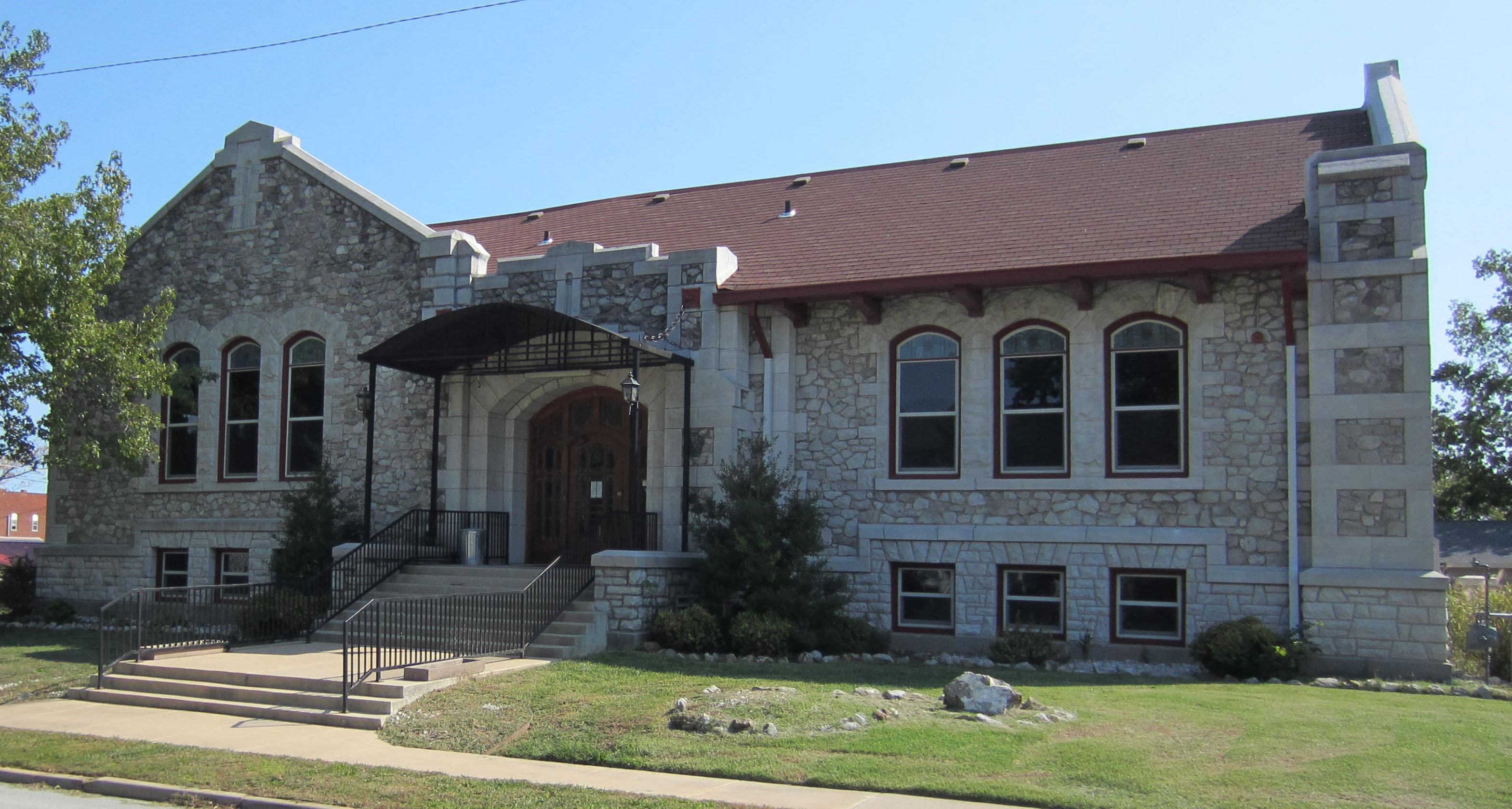 Andrew Carnegie funded public library in Webb City, Missouri. Image taken Sept. 23, 2012.